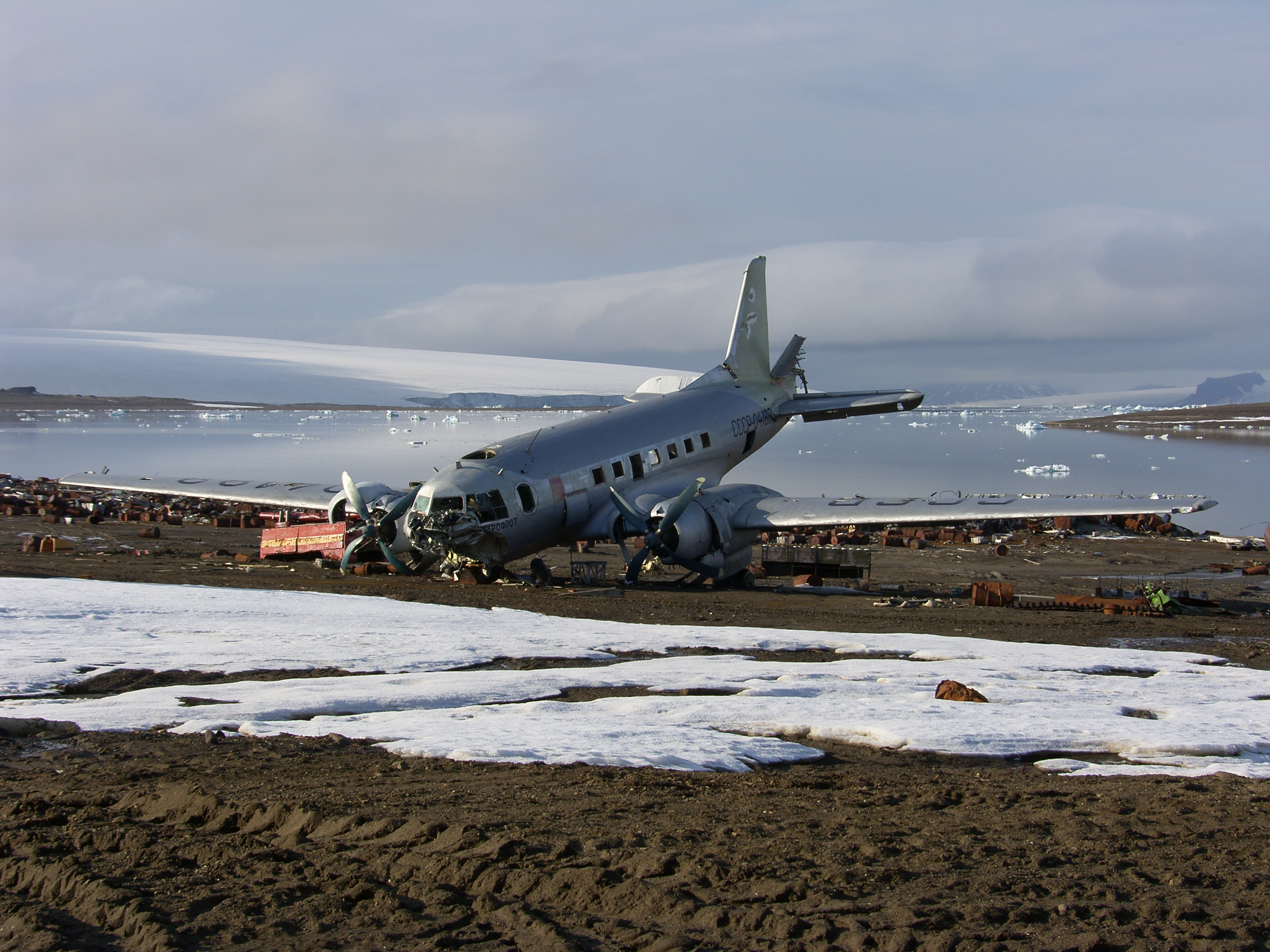 Polar Geophysical Observatory named Krenkel, Heiss Island, Franz Josef Land. Photo by Sergey Slepnev, 2007, September